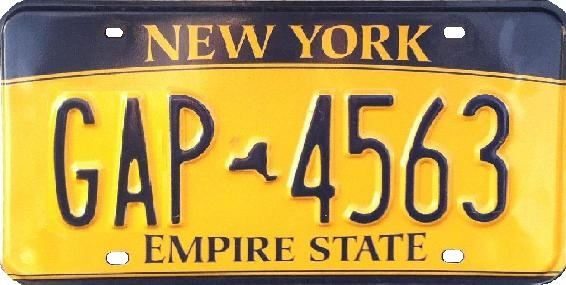 2010 New York License Plate